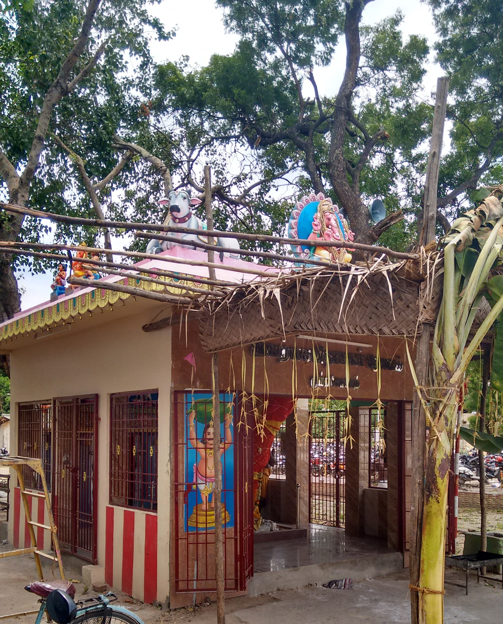 Railway station karpaga vinayakar கும்பகோணம் ரயிலடி கற்பக விநாயகர் கோயில்